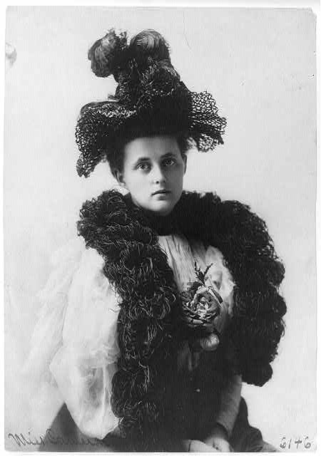 Title Miss Cameron Summary Three-quarter length portrait of Rachel Cameron, daughter of Senator Donald Cameron, seated, facing slightly right. Contributor Names Johnston, Frances Benjamin, 1864-1952, photographer Created / Published ca. 1896. Format Headings Photographic prints--1890-1900. Portrait photographs--1890-1900. Notes - Title and other information transcribed from item. - Frances Benjamin Johnston Collection (Library of Congress). - No. 6146. - No caption card found in file. Medium 1 photographic print. Call Number/Physical Location LOT 11735 [item] [P&P]